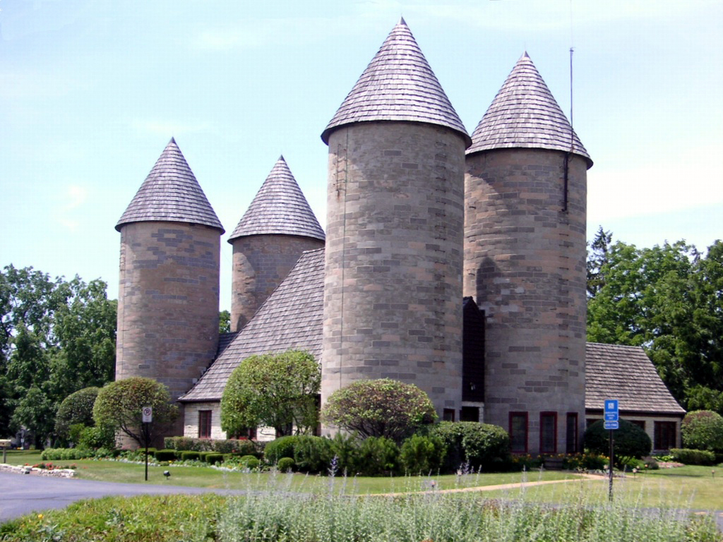 Village Hall (Four Silos) in Inverness, IL